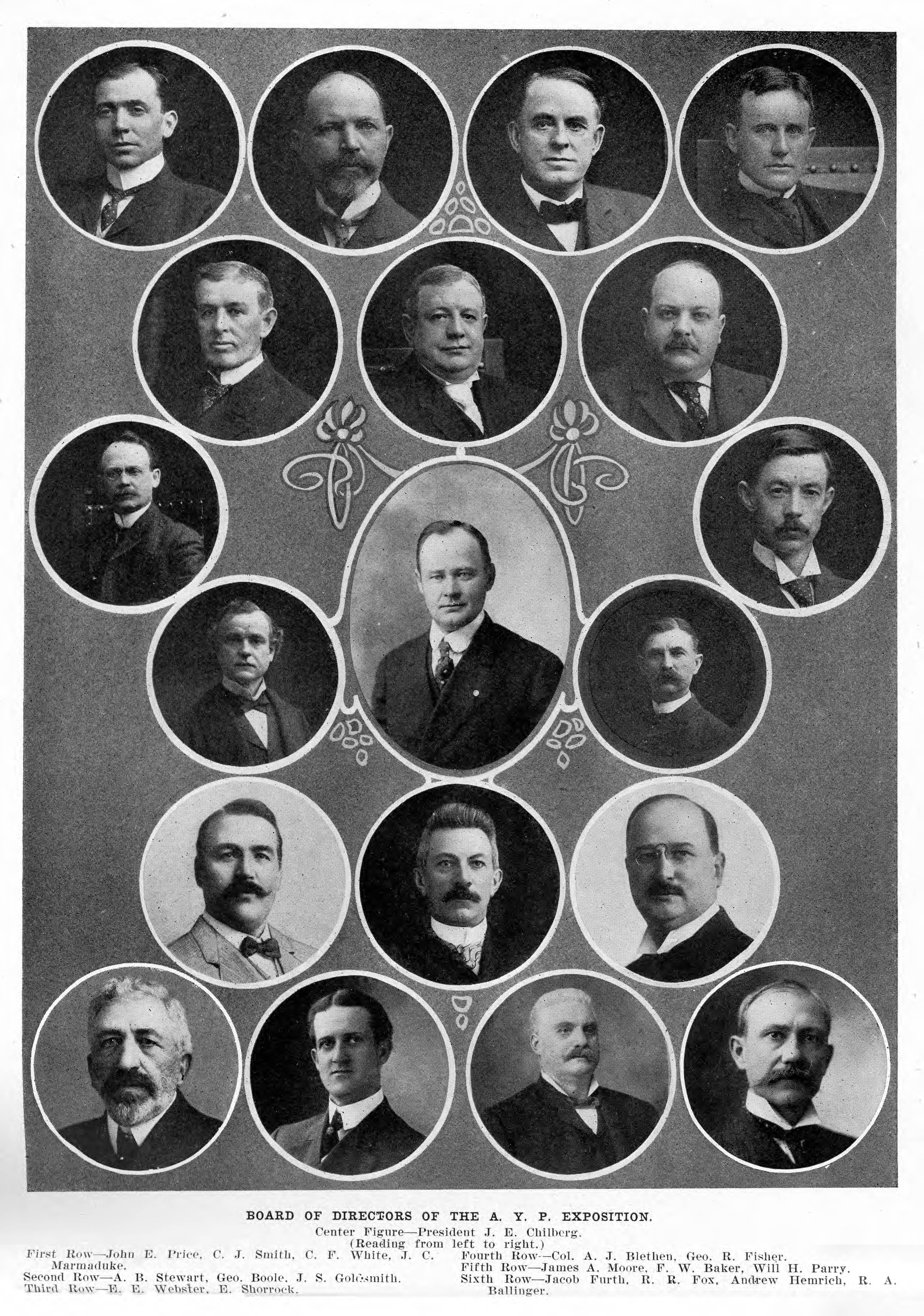 From the materials for the Alaska-Yukon-Pacific Exposition of 1909, held in Seattle. With File:General history, Alaska Yukon Pacific Exposition, fully illustrated - meet me in Seattle 1909 - Page 13.jpg, pictures of all directors of the Alaska-Yukon-Pacific Exposition. Center figure - President John E. Chilberg First row - John E. Price, C.J. Smith, C.F. White, J.C. Marmaduke Second row - A.B. Stewart, Geo. Boole, J.S. Goldsmith Third row - E.E. Webster, E. Shorrock Fourth row - Col. A.J. Blethen [publisher of the Seattle Times], Geo. R. Fisher Fifth row - James A. Moore [real estate tycoon, the Moore Theatre and Hotel bear his name], F.W. Baker, Will H. Parry Sixth row - Jacob Furth [founder of Seattle National Bank, key role in developing Seattle's transportation system], R.R. Fox, Andrew Hemrich [brewer, Rainier Beer], R.A. Ballinger [Seattle mayor 1904–1906]